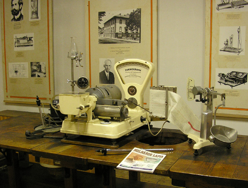 The Museum of Mill, Budapest, Hungary